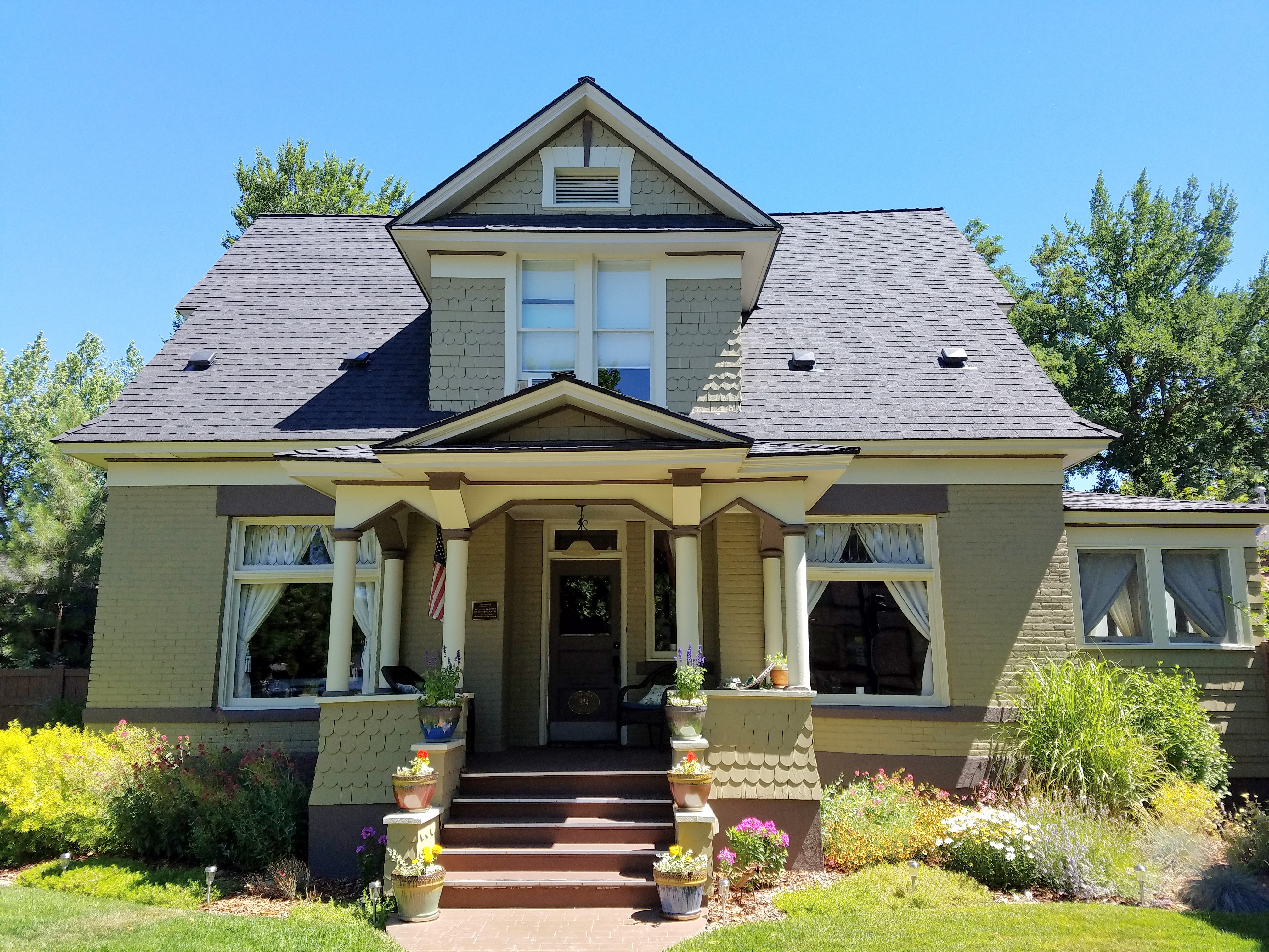 The H. E. McElroy House (1901) in Boise, Idaho, was designed by Tourtellotte and Hummel and is listed on the National Register of Historic Places.